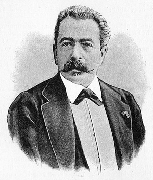 Belgian pianist and teacher of Polish origin Józef Wieniawski (1837–1912).